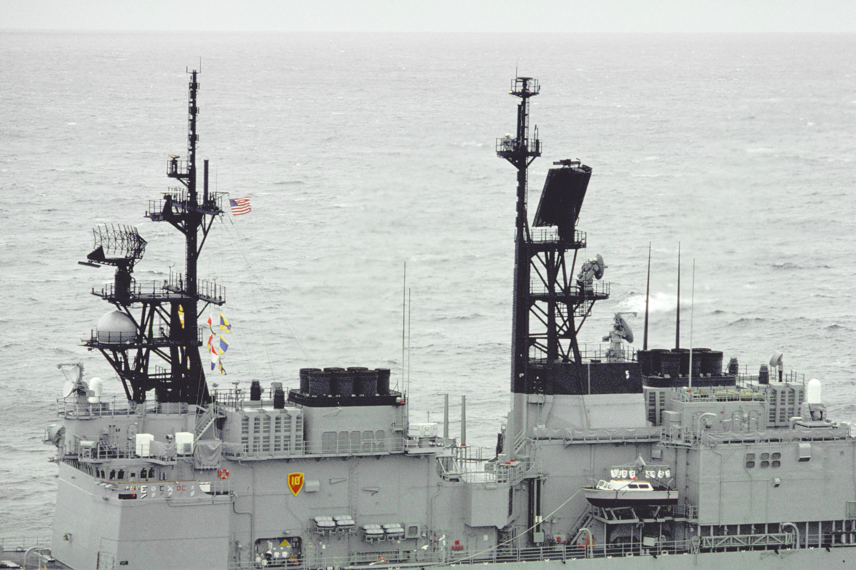 A view of various radar installations and satellite communications antennas atop the masts of the guided missile destroyuer USS KIDD (DDG-993). The vessel is underway off the Virginia Capes.